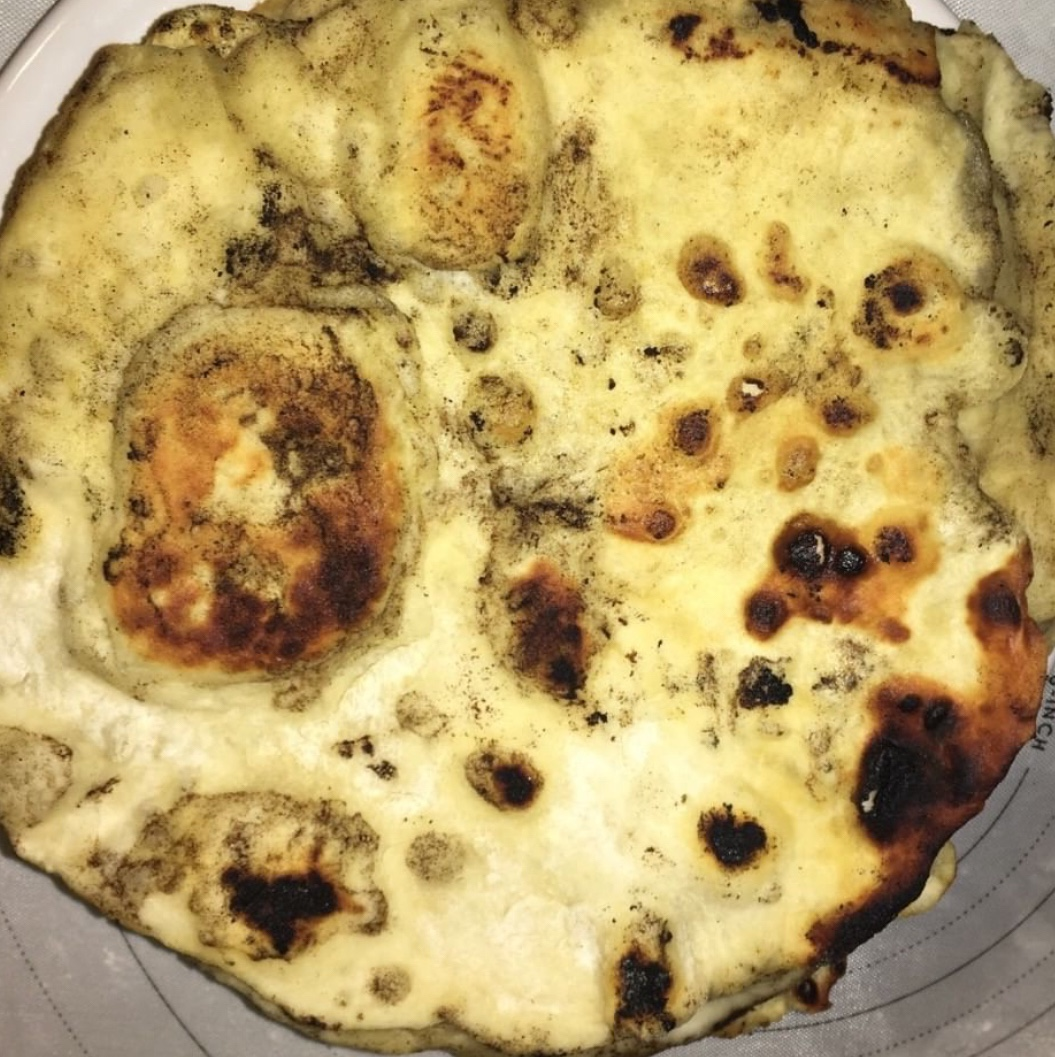 Israeli-style laffa bread.